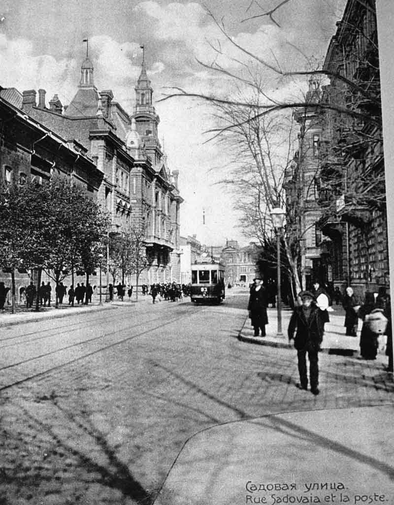 One of the first tram lines in Odessa (now replaced by a trolleybus line).